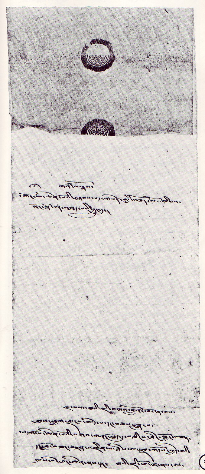 Letter of Pholhane to the chinese emporer 1727 First Part